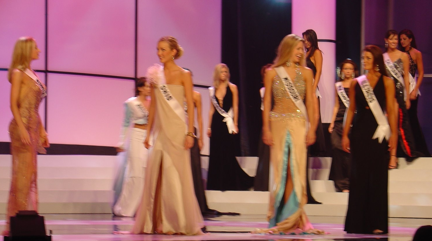 Contestants rehearsing for the Miss USA 2004 pageant